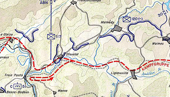 Map depicting the fighting between Malmedy and Trois-Ponts on 17-18 December 1944, between Kampfgruppe Peiper and elements of the US 30th Infantry Division